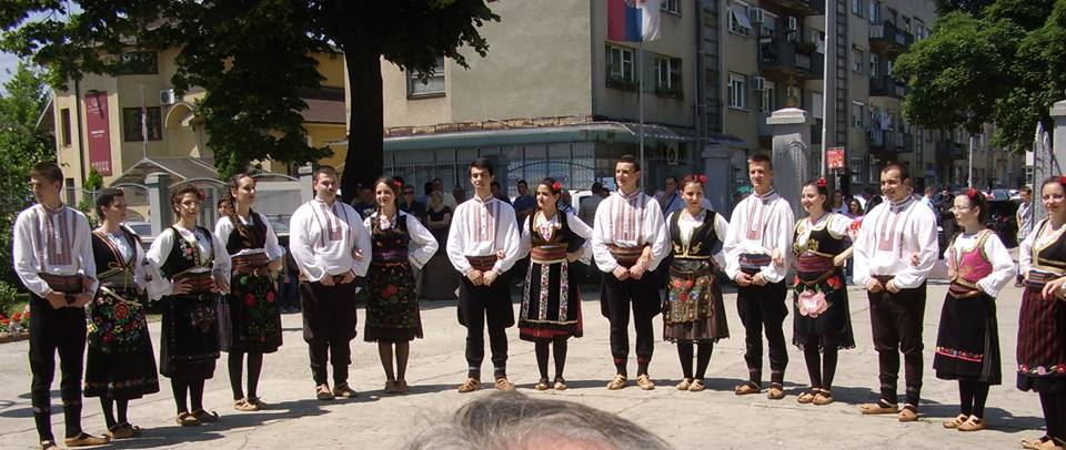 KUD Prep. mati Angelina